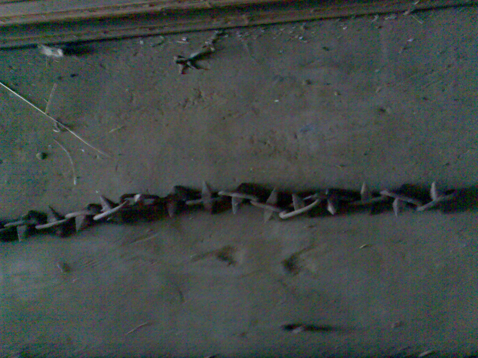 Grave-chain with diamond shaped link-pins. Apparently used to fence off graves. Picture taken on farm near Winburg, Free State, South Africa.